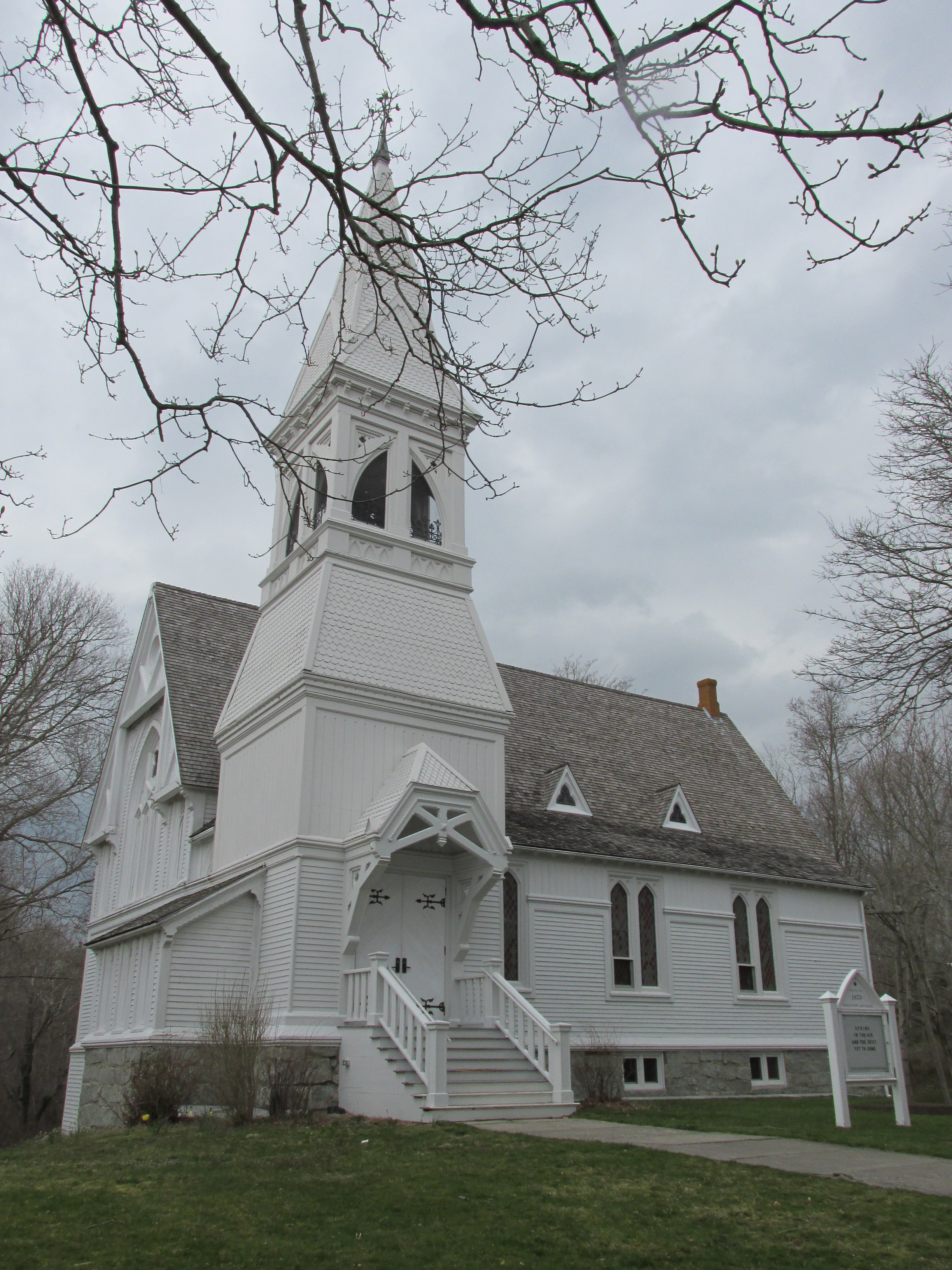 The New Church, 1870, Yarmouth Port Massachusetts